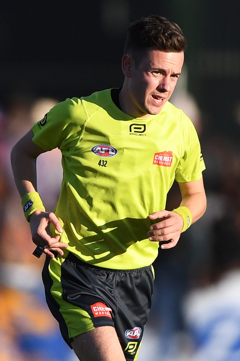 Curtis Deboy during the 2019 AFL round 18 match between Melbourne and West Coast at Traeger Park on Sunday, 21 July 2019 in Alice Springs, Northern Territory.